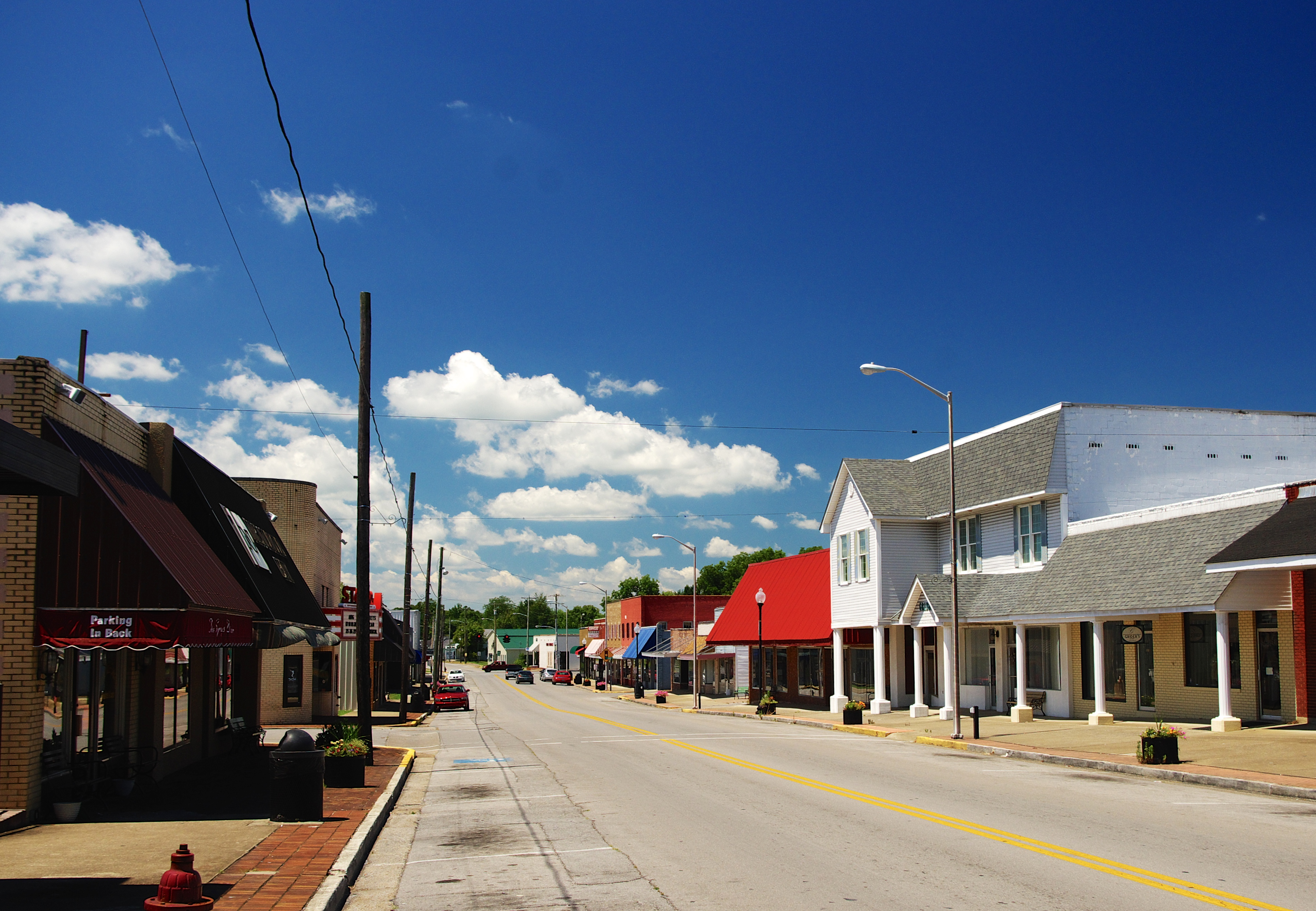 Main Street (Kentucky Route 379) in Russell Springs, Kentucky, United States.